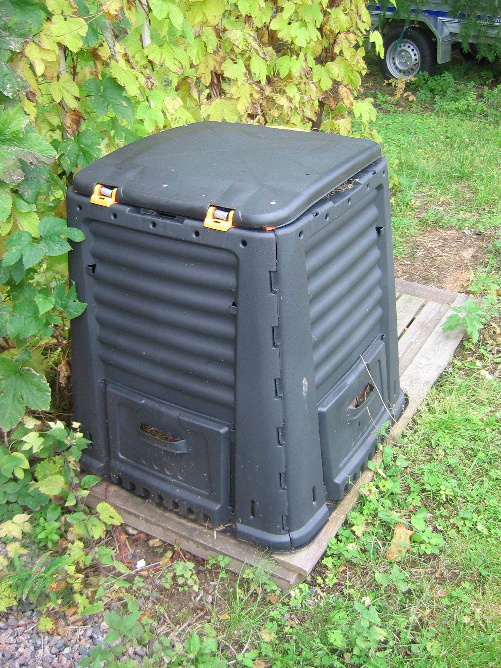 A closed plastic compost for garden waste.